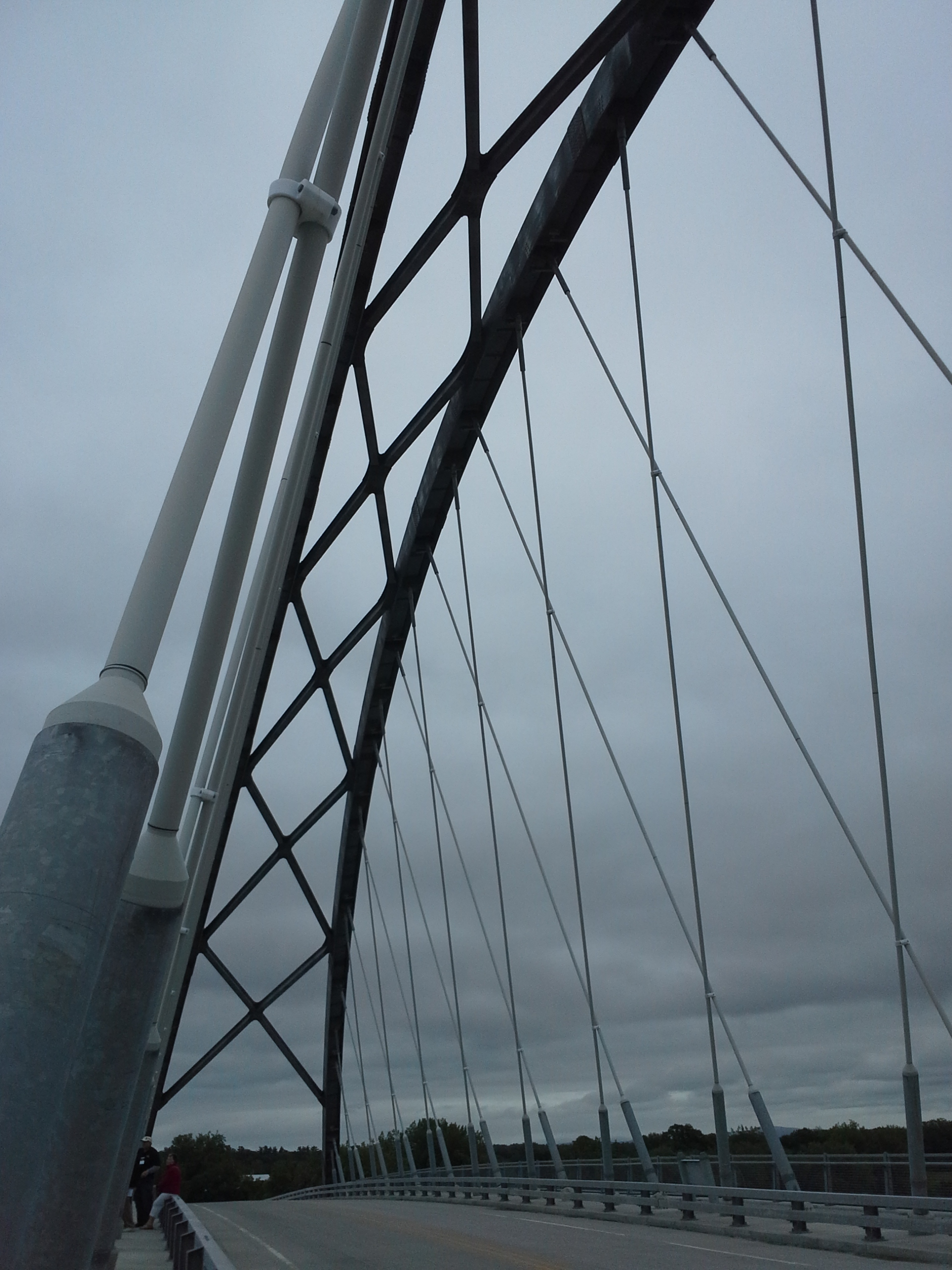 Suspender cables on the Lake Champlain Bridge, showing the crossed cables charactaristic of the network tied arch design.